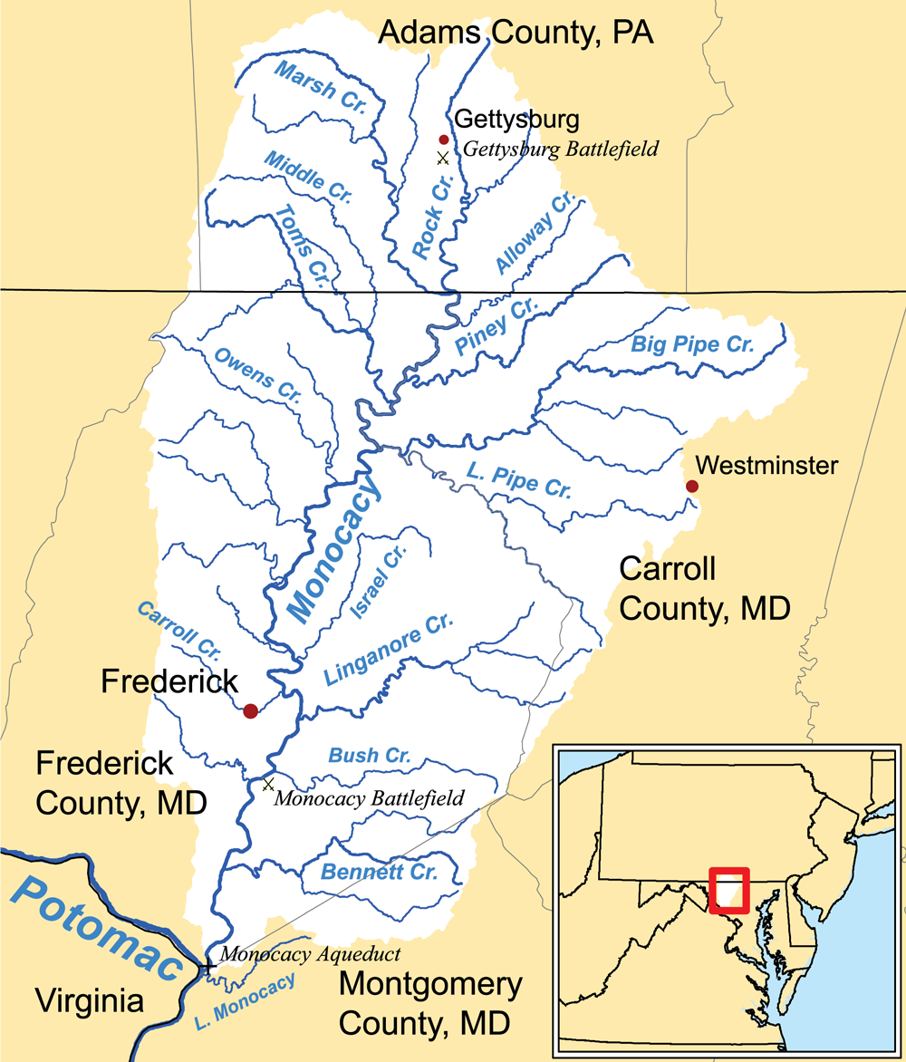 This is a map of the Monocacy River Watershed I made using USGS and Census Bureau data.